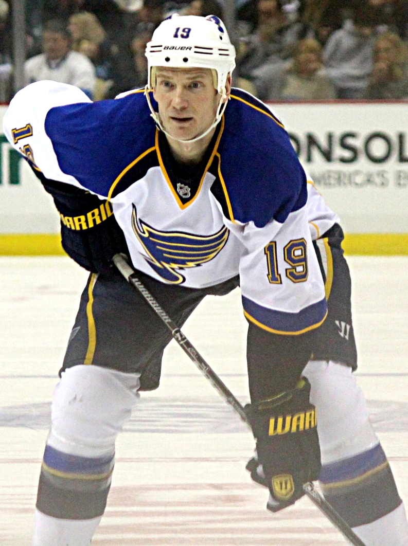 St. Louis Blues defenseman Jay Bouwmeester during a game against the Pittsburgh Penguins, March 23, 2014, at Consol Energy Center in Pittsburgh, PA.